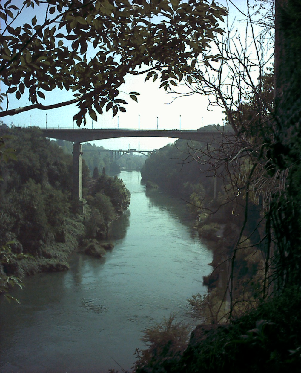 River Adda at Trezzo d'Adda, Lombardy, Italy